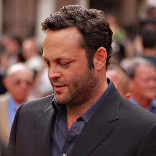 Vince Vaughn at the London premiere of The Break-Up, 2006